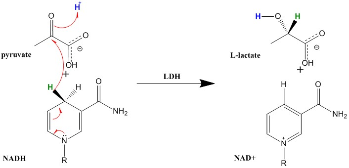 Mechanism for the LDH reaction